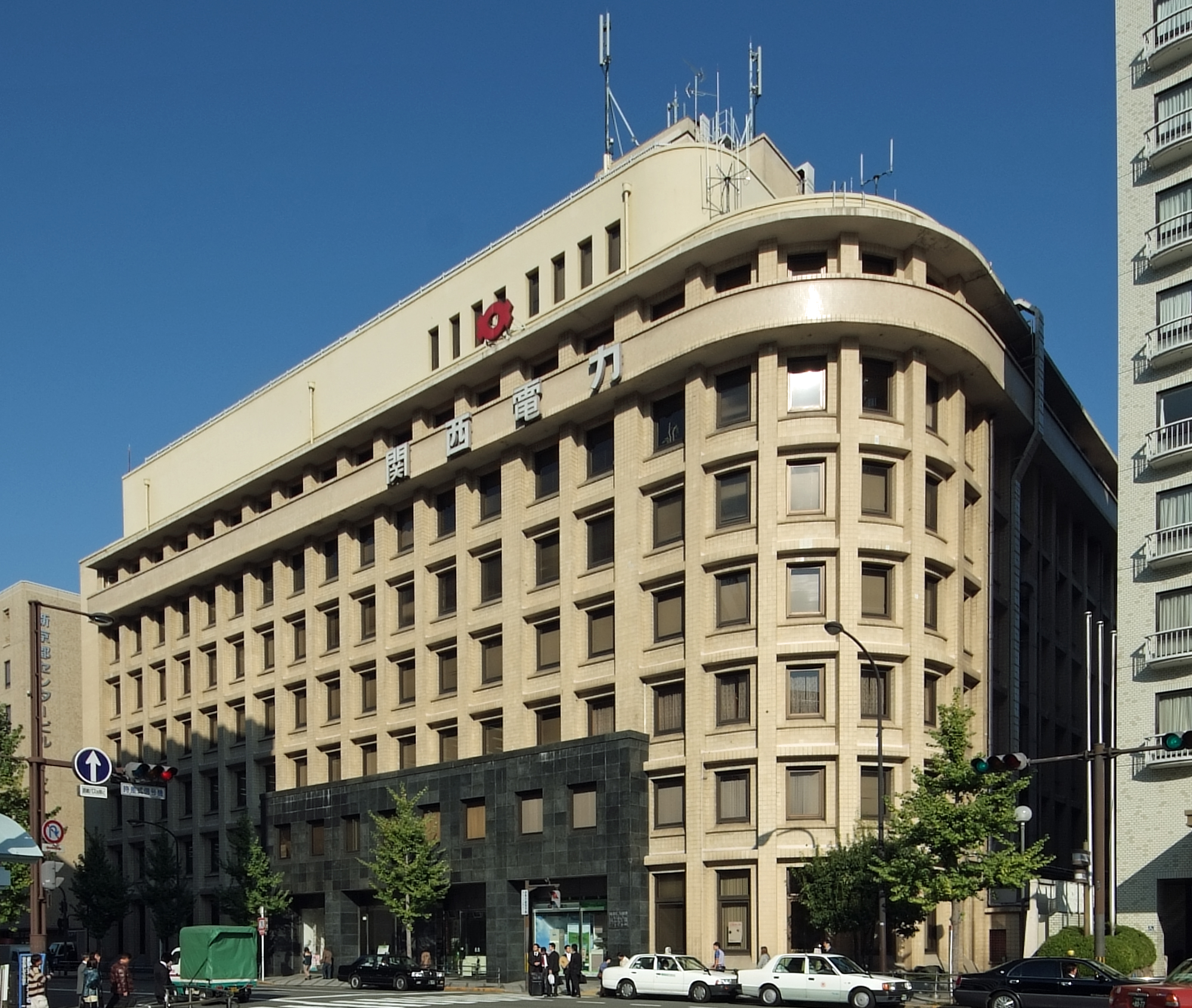 Kansai Electric Power Company Kyoto Branch, Shimogyo-ku Kyoto Japan, designed by Goichi Takeda in 1937.